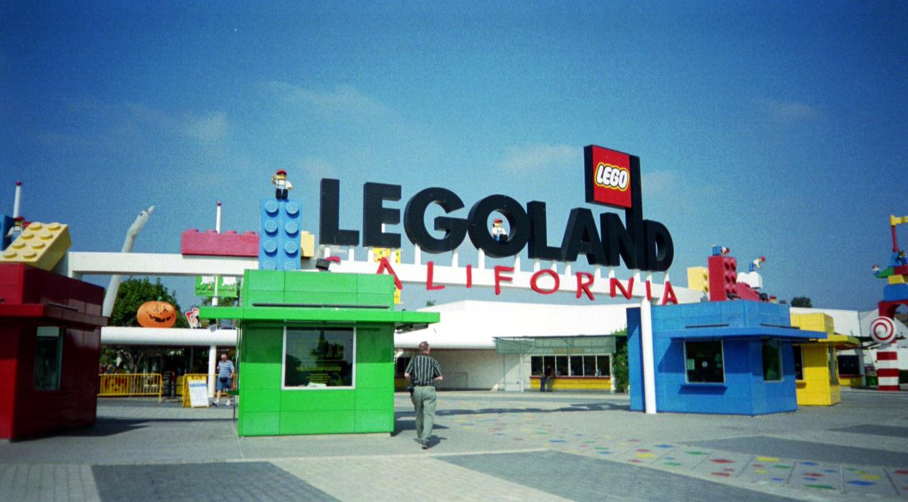 Legoland California